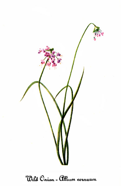 Watercolor painting of Allium_cernuum.